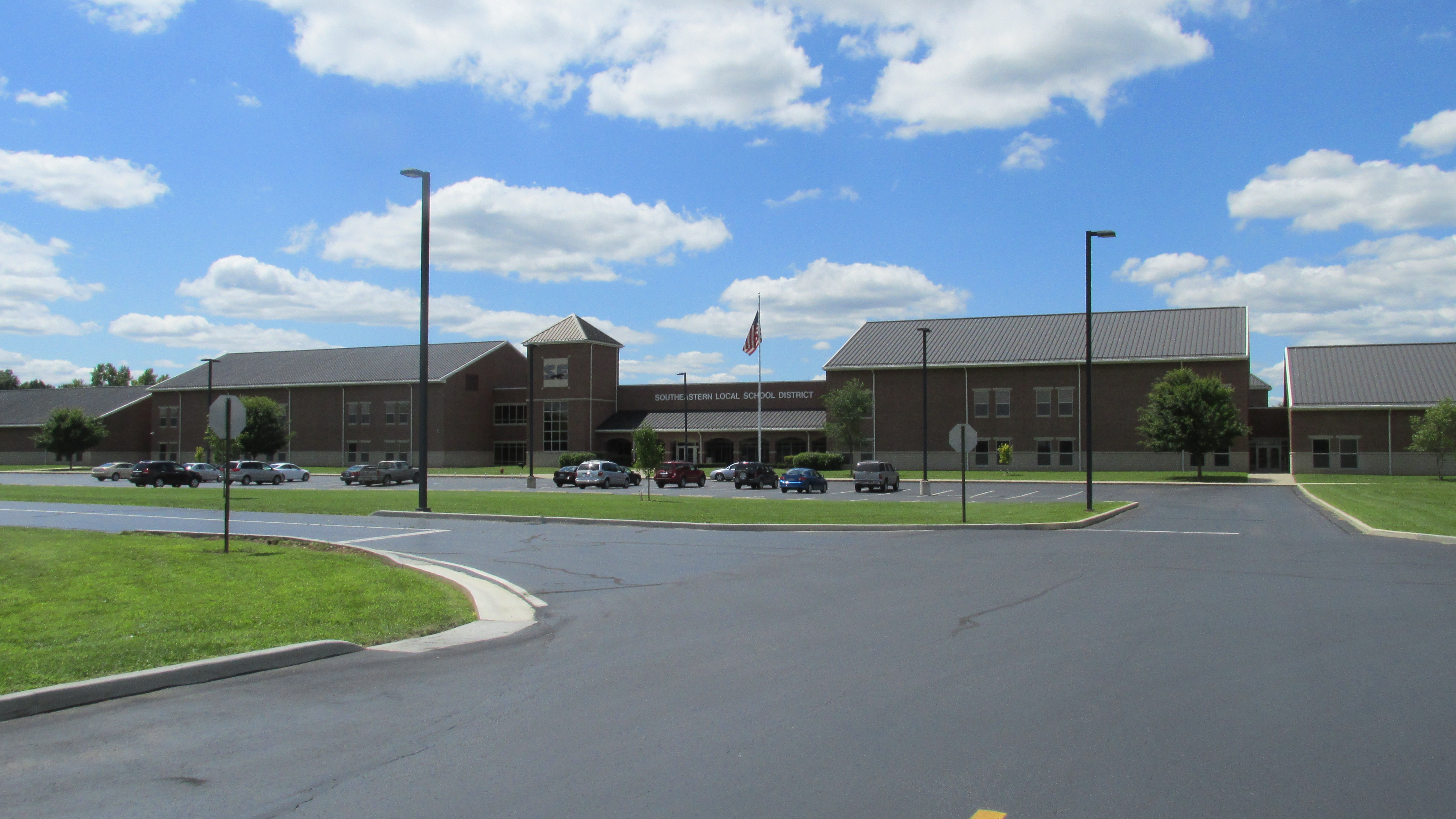 Southeastern High School located near Chillicothe, Ohio.